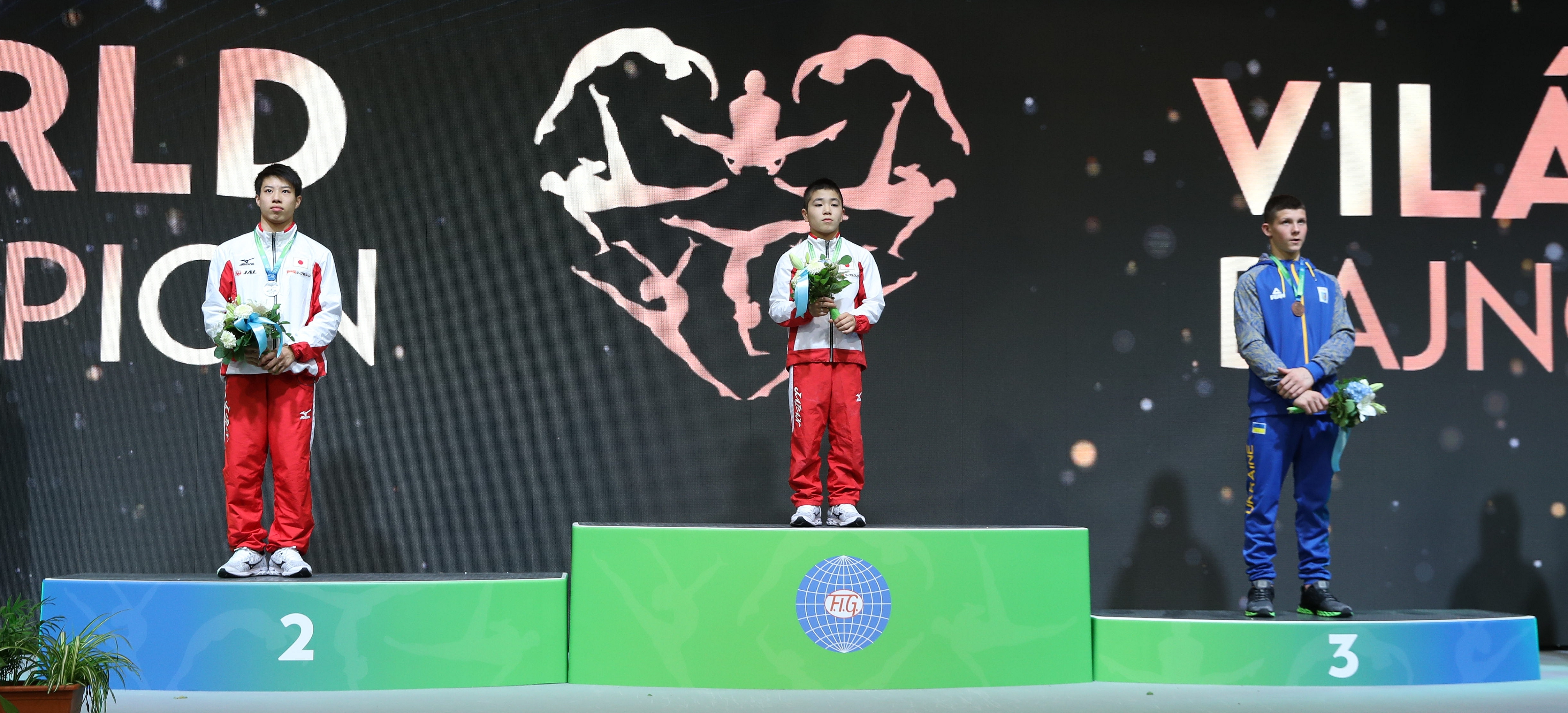 Victory ceremony for the boys' all-around final at the 1st FIG Artistic Gymnastics Junior World Championships on 27 June 2019 in Győr, Hungary. Depicted: Illia Kovtun. Ryosuke Doi. Shinnosuke Oka.